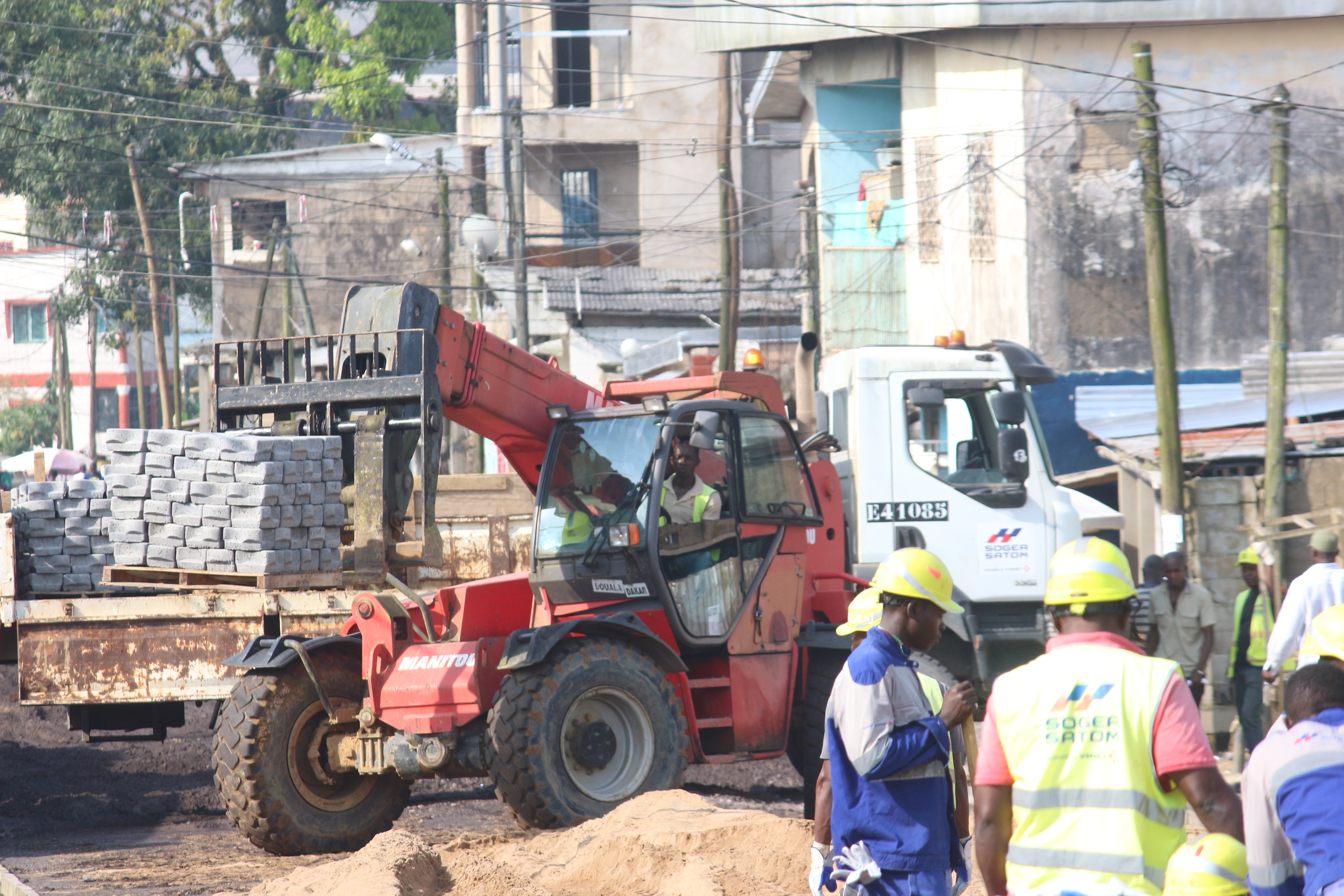 Les employés de la société Satom pendant les travaux d'entretien routier à Douala This is an image of "African people at work" from Cameroon